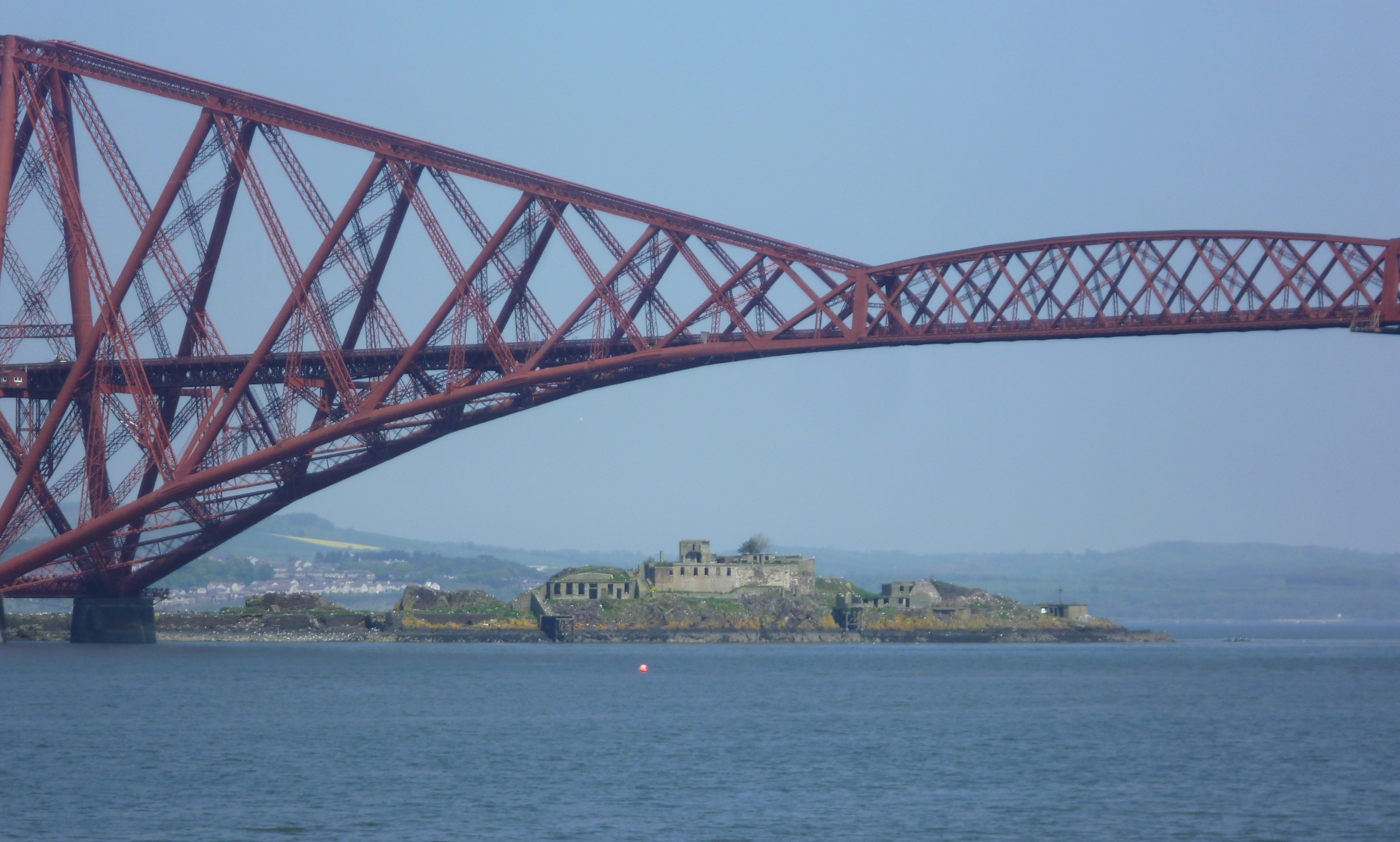 The 14thC chronicler, John of Fordun, relates that after his victory over the Angles in the battle of Athelstaneford in 832 AD, King Angus of the Picts set King Athelstane's head on a pike and placed it on Inchgarvie as a warning that this was the start of Pictish territory. The story is the first recorded suggestion of a ferry crossing at this point on the Forth (otherwise the warning would have been pointless).